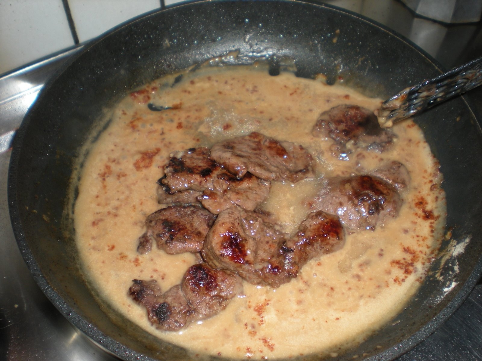 Venison from Seasonal Swiss Hunt